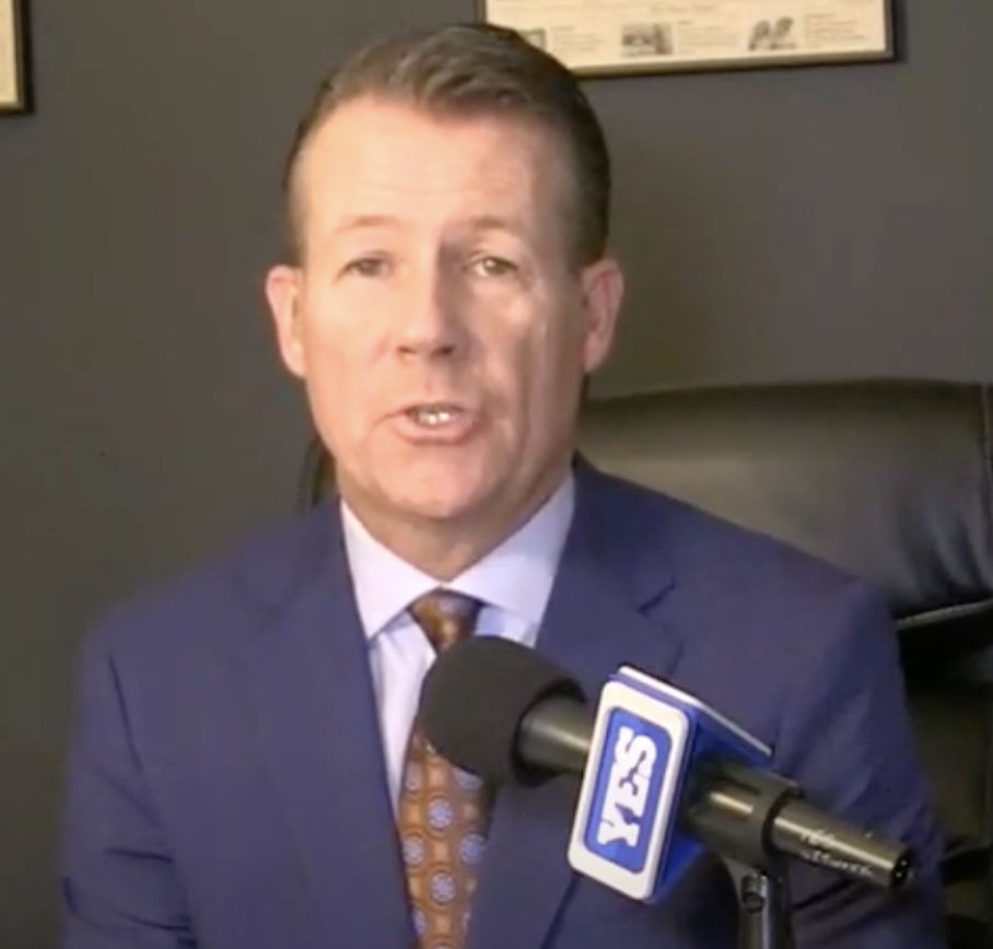 Jack Curry speaking on the YES Network in an August 2020 hearing